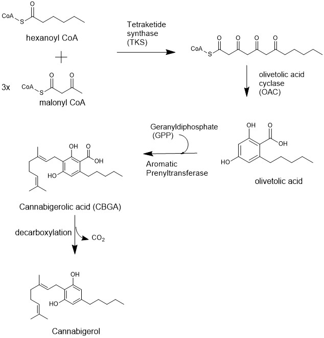 Biosynthesis of cannabigerol